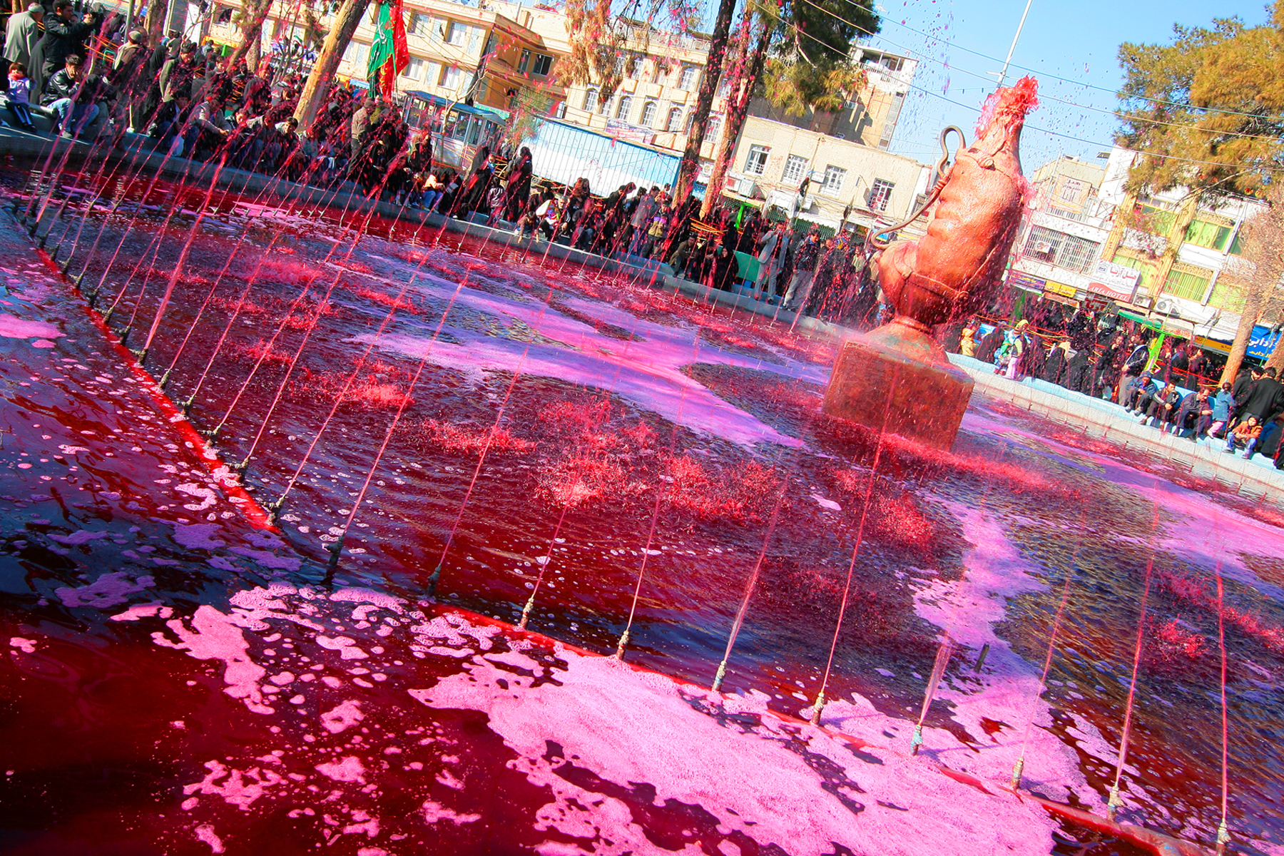 Mourning of Muharram